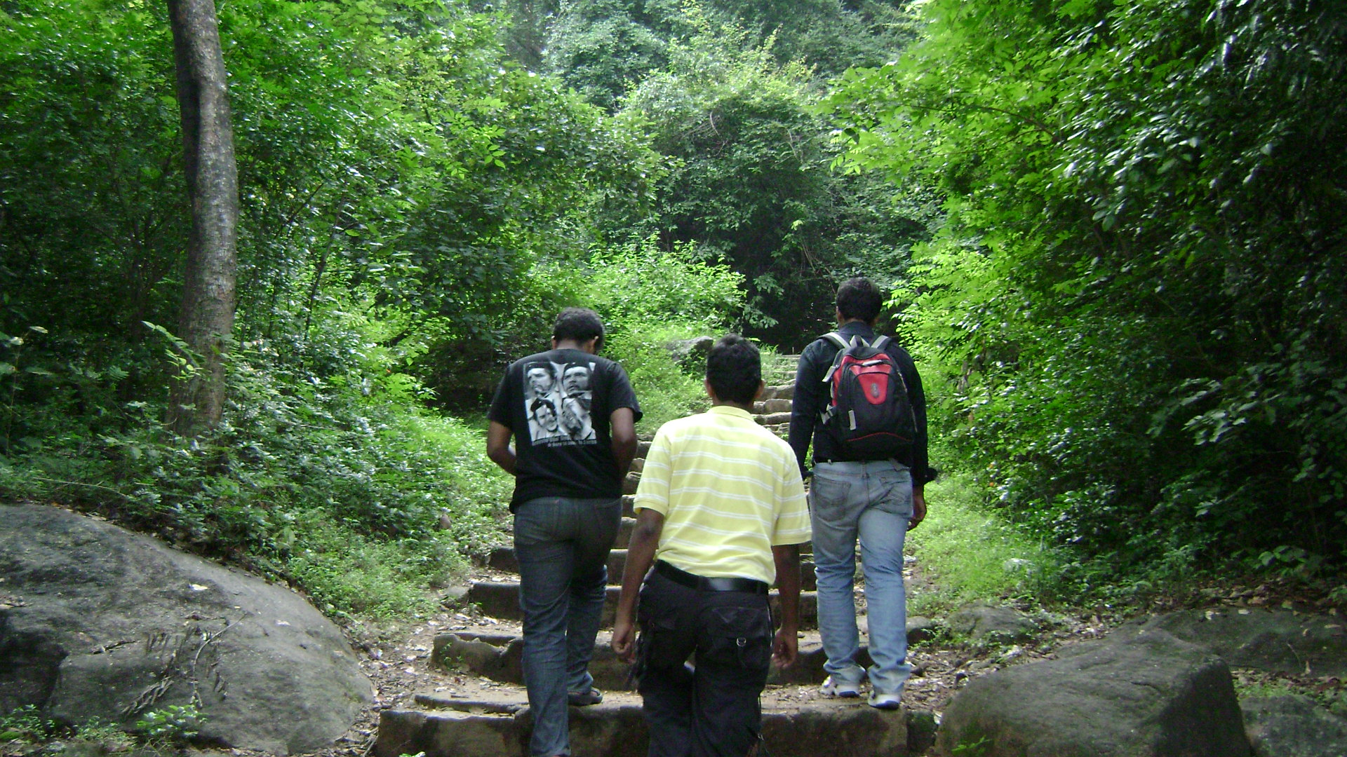 Passage through the jungle in Papanasam to reach the waterfall